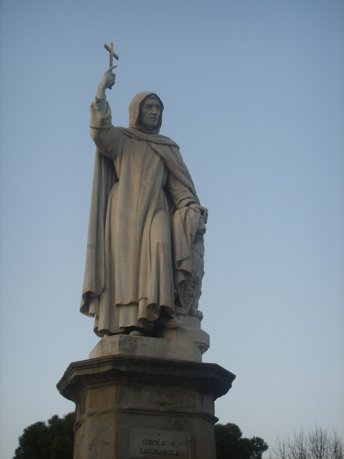 Monument to Girolamo Savonarola in Piazza Savonarola, Florence, Italy.